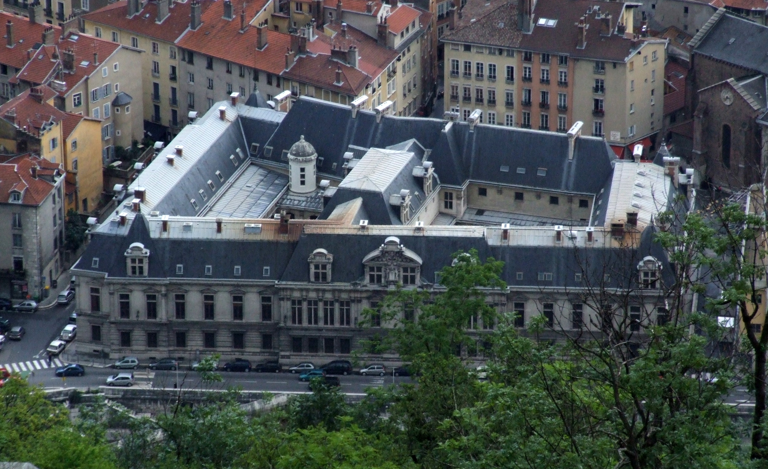 Grenoble, France, FRANCE